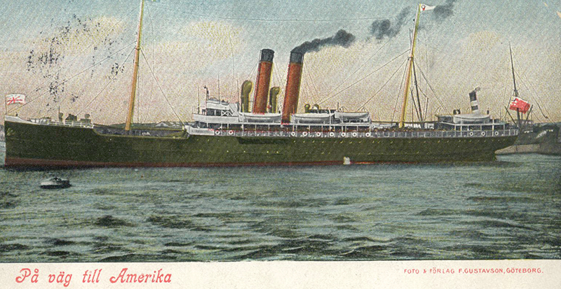 S/S Calypso